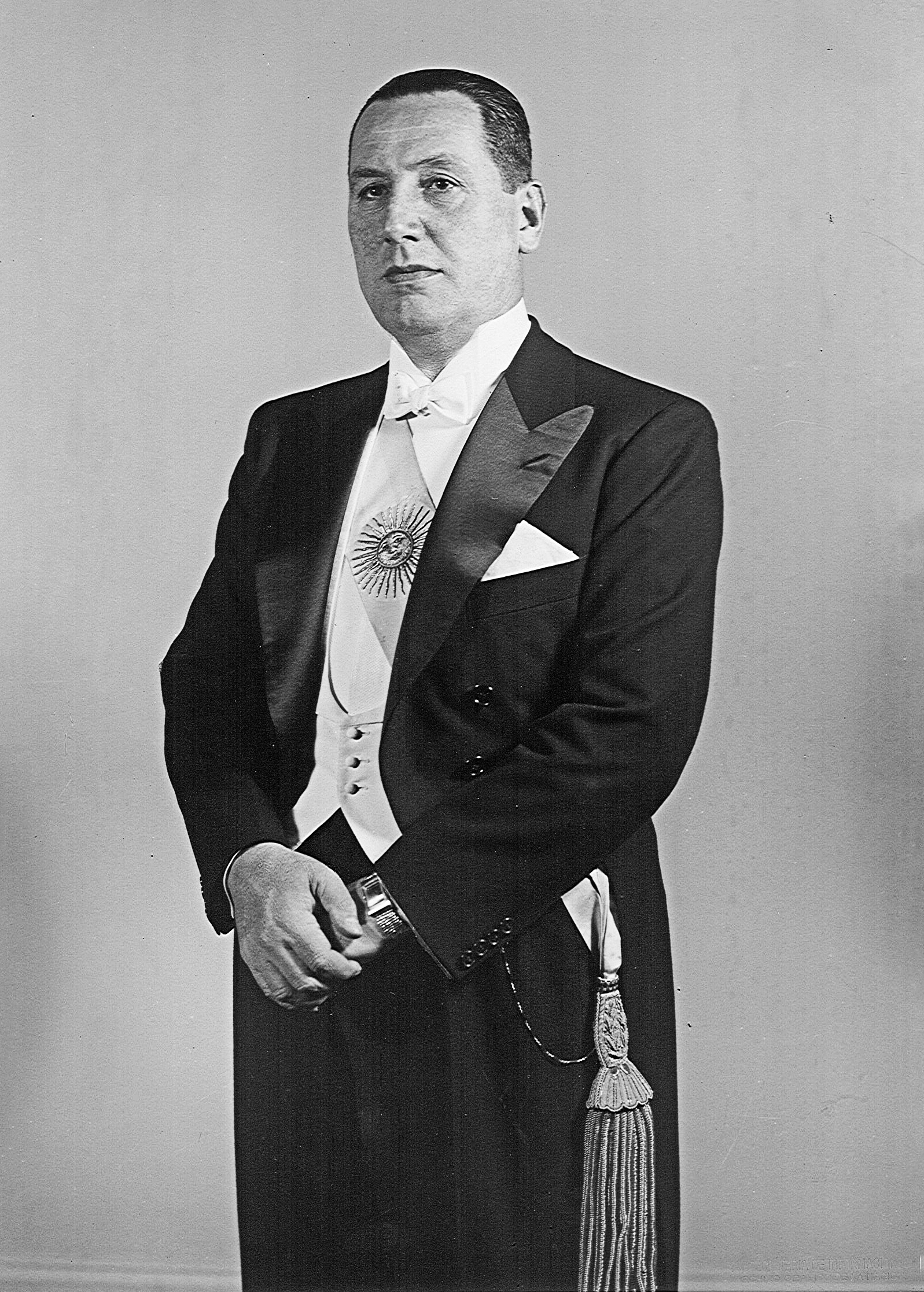 Official photo of President of Argentina, Juan Domingo Perón, using the presidential sash.